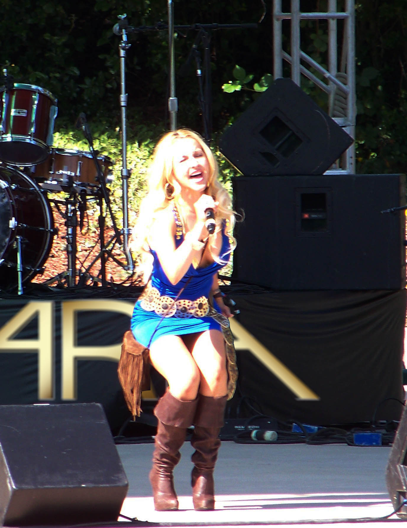 Aria Johnson Live at the Ludacris Concert 2009